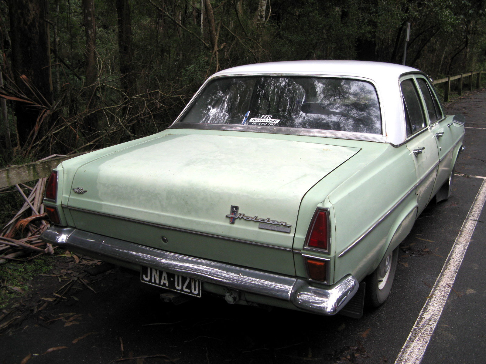 1966-1968 Holden HR Special